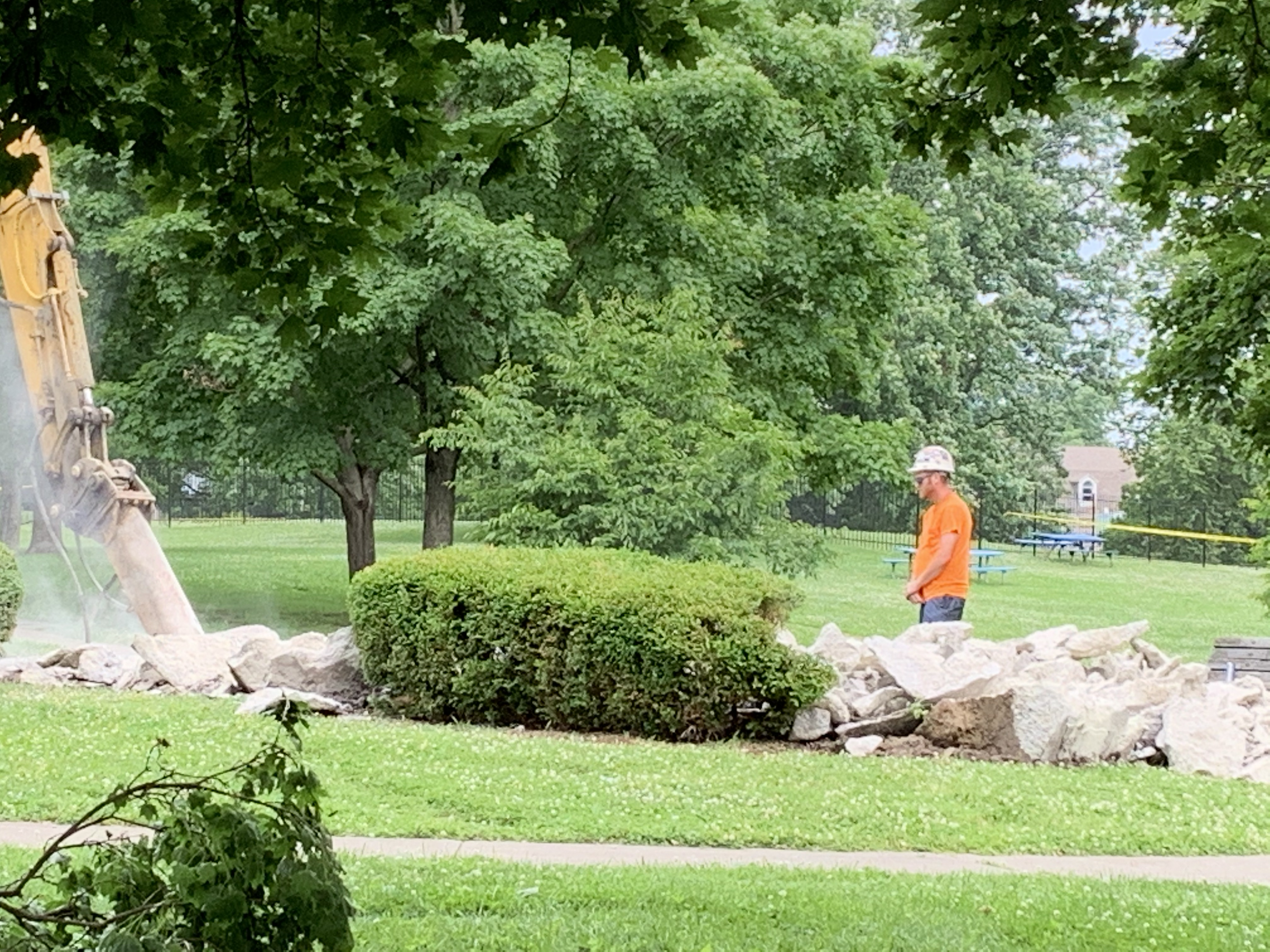 Confederate Soldiers and Sailors Monument in Garfield Park, Indianapolis, USA. This image was taken at about 11 am on June 9, 2020—the day after the monument was dismantled and removed—while construction crews were demolishing the monument's remaining base. An excavator-mounted jackhammer breaks the monument base.